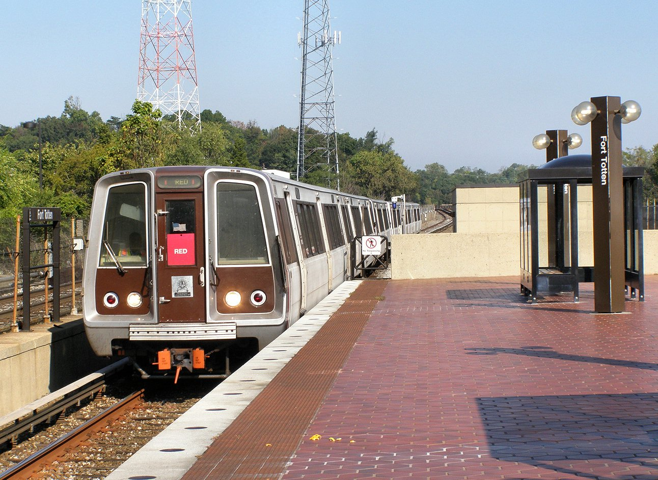 A Rohr Industries 1000-series car southbound on the Washington Metro Red Line arrives at the Fort Totten Station in November 2008.